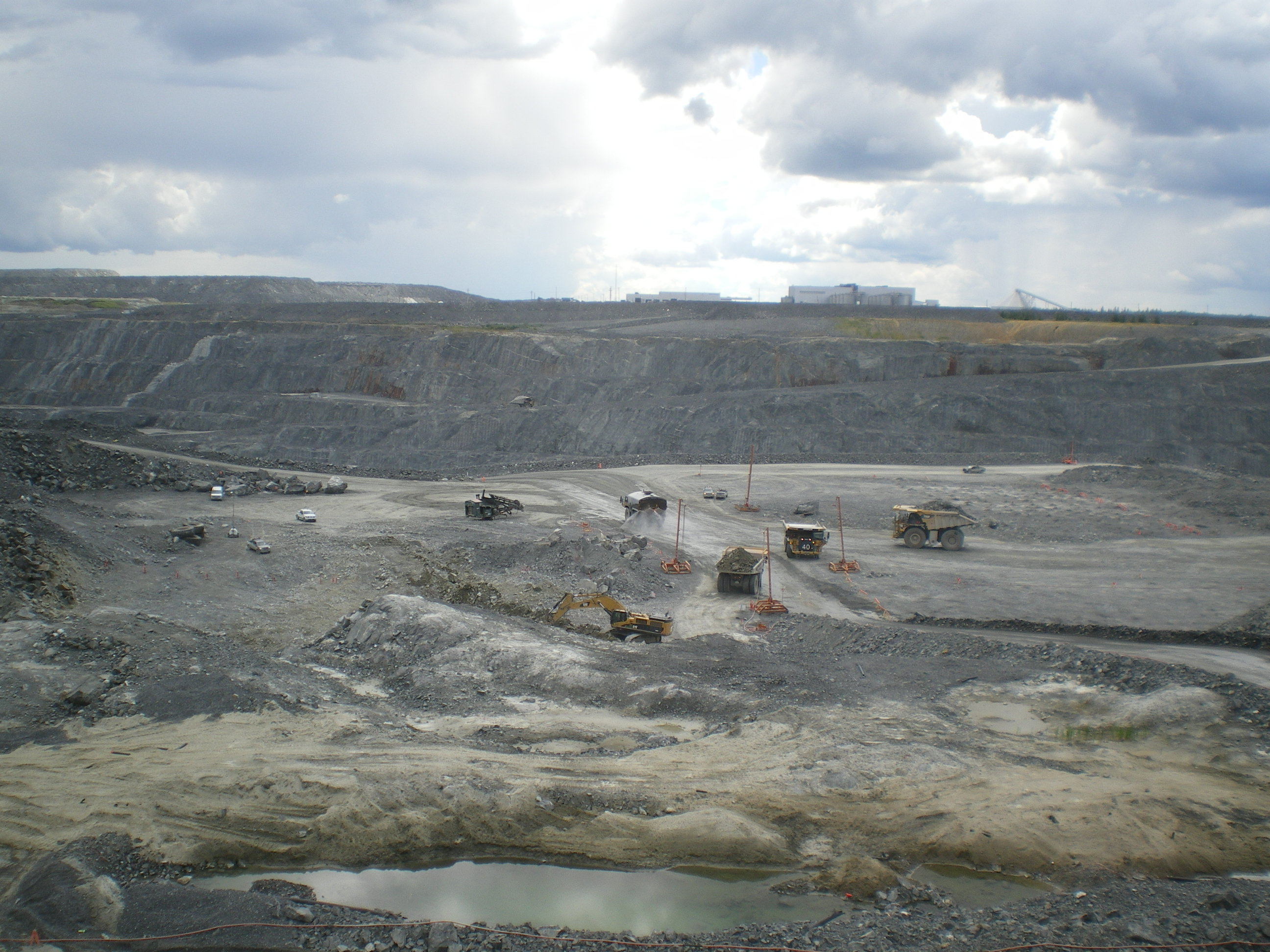 The malartik gold mine